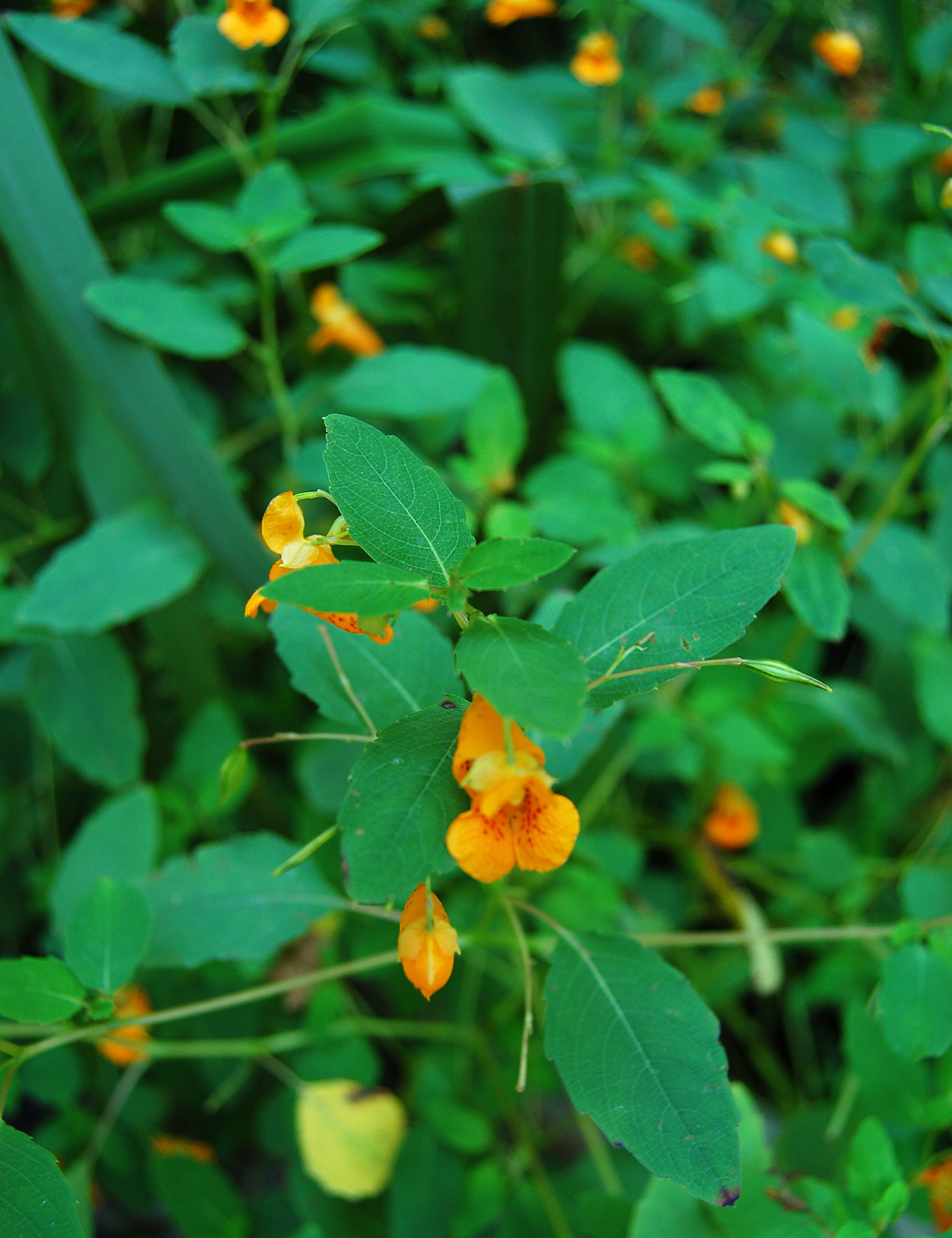 A photograph of the leaves and flower of the Common Jewel Weed (Impatiens capensis). Photo taken at the Tyler Arboretum.